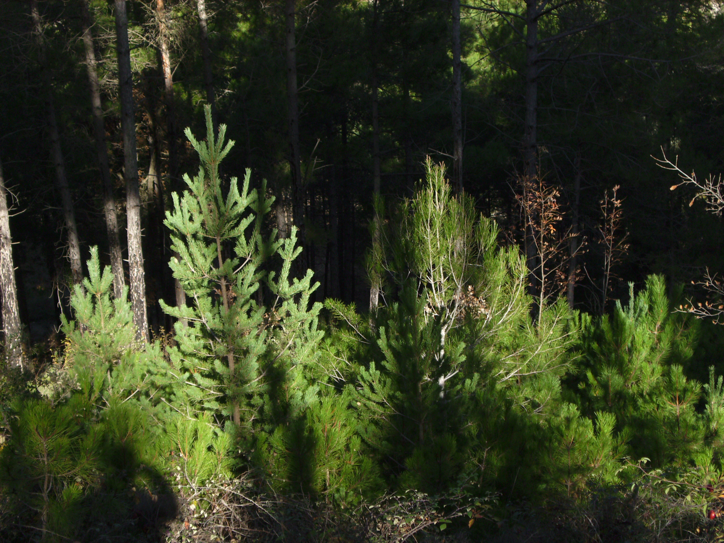 From left to right: Pinus sylvestris, Pinus halepensis and Pinus nigra, in the bottom also Pinus nigra (shorter trees). In the wild all pines born naturally after 1998 wildfire, Castelltallat Catalonia, 850 m asl.